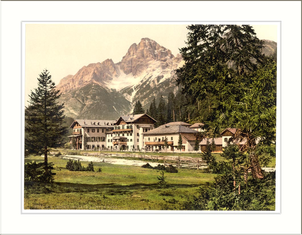 Schluderbach and Croda Pass (i.e. (Croda Rosa) Tyrol Austro-Hungary